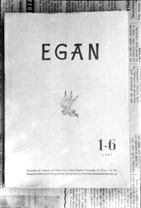 front cover of a review Egan, issue 1-6, 1967